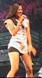 Yasmin "Y-Ass" Knock at "The Dome 46"